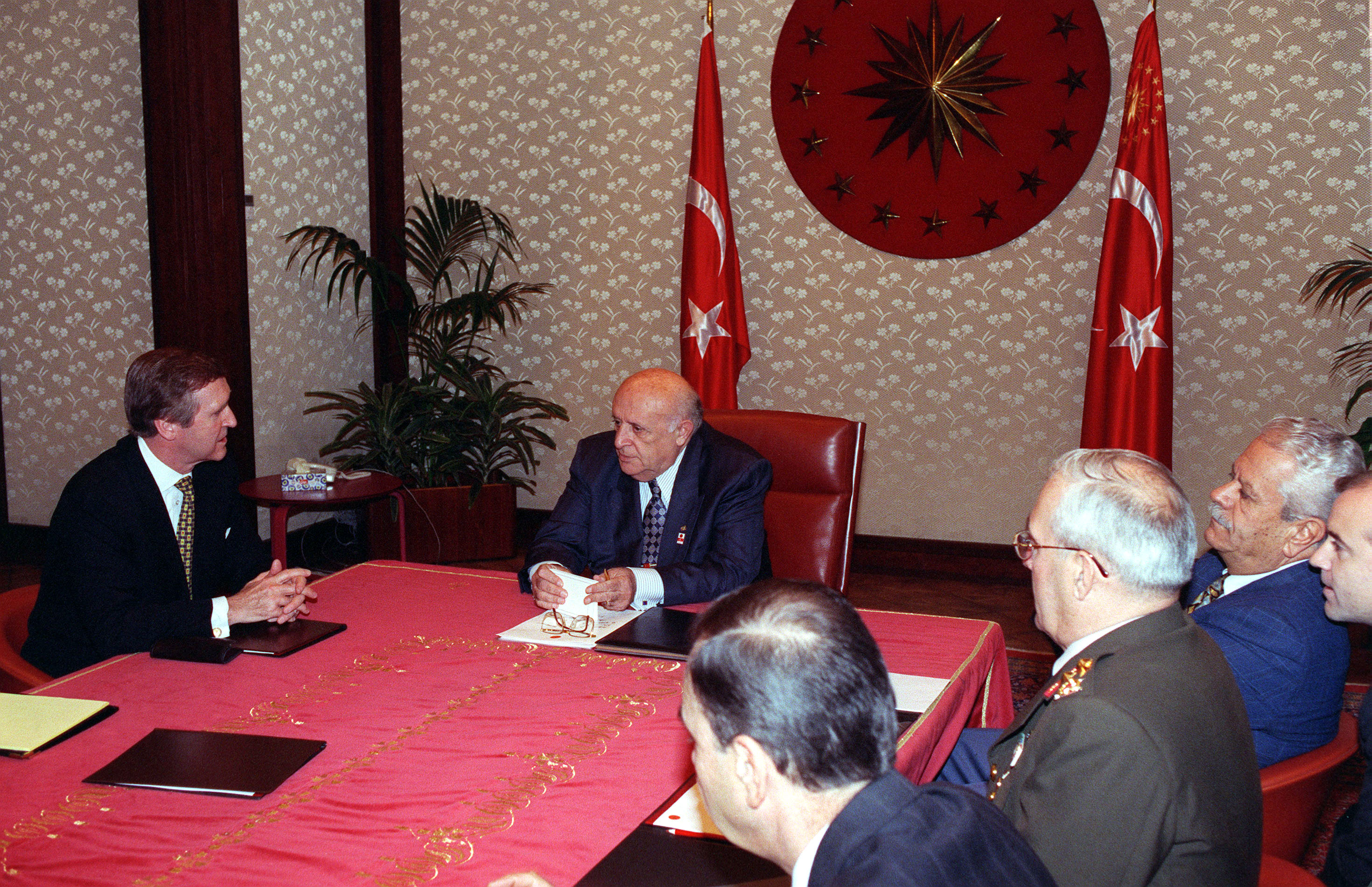 Secretary of Defense William Cohen (left) meets with Turkish President Suleyman Demirel (center) in Ankara, Turkey, Nov. 6, 1998. Turkey was one of the eleven nations where Cohen stopped, during his four-day, whirlwind tour of Europe and the Middle East, to discuss planned U.S. - British military action against Iraq. The current crisis was precipitated by Saddam Hussein's refusal to allow United Nations' weapons inspectors to perform their duties. Also attending this meeting are the Turkish Minister of Defense Ismet Sezgin (2nd from right) and the Chief of the Turkish General Staff, Gen. Huseyin Kivrikoglu (3rd from right).